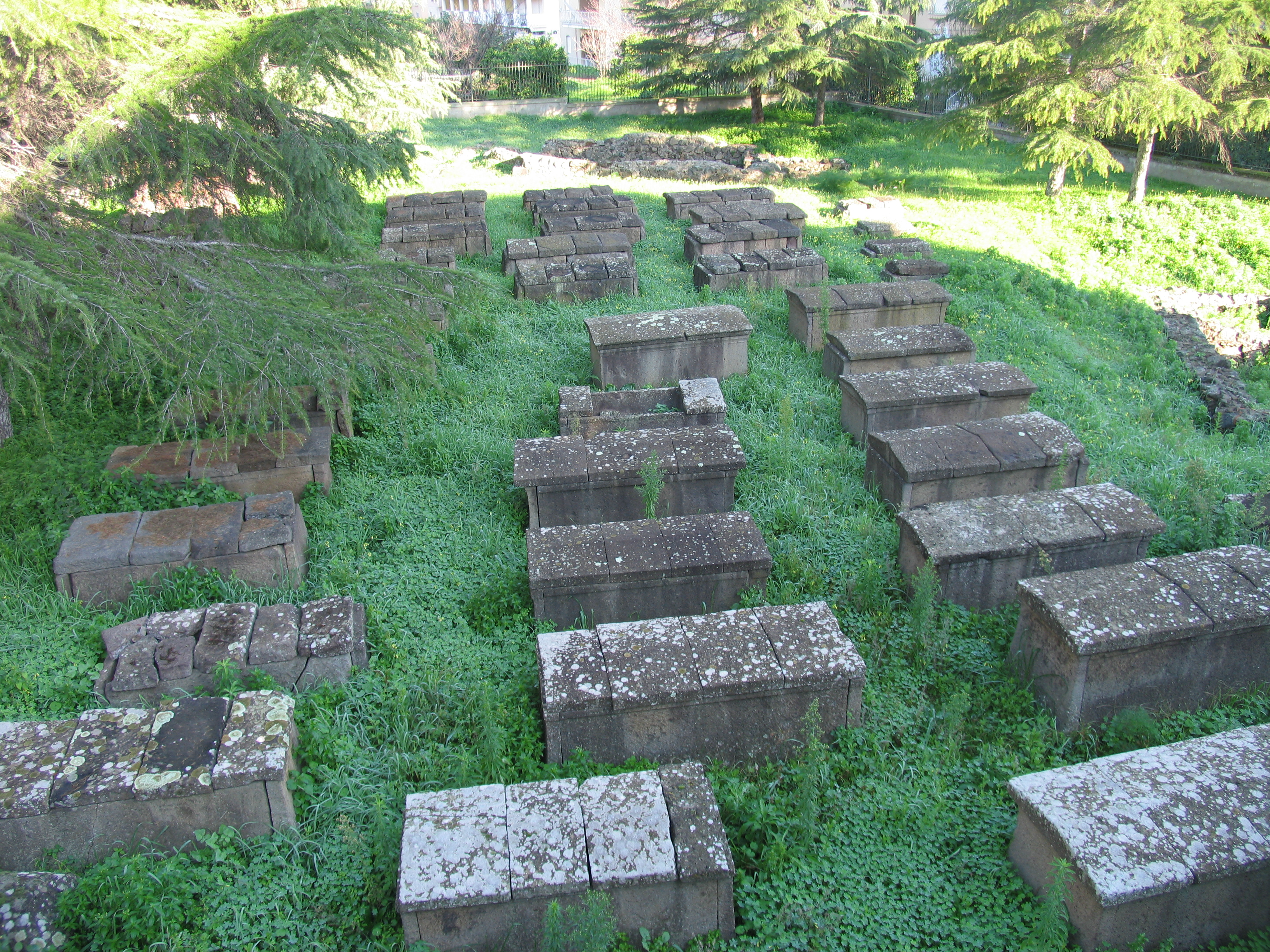 Greek tombs in Lipari, Eolian islands, Sicily, Italy